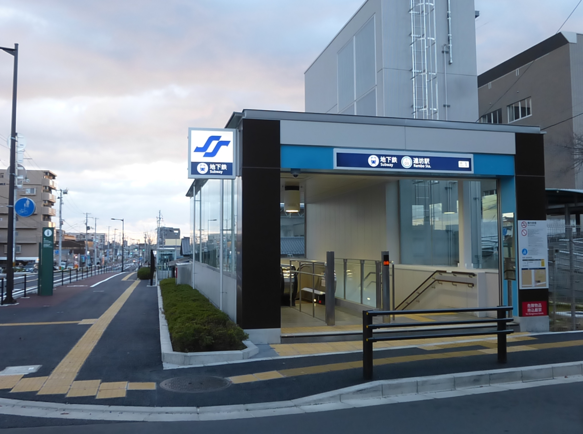 The "West 1" entrance to Rembo Station on the Sendai Subway Tozai Line in Sendai, Japan